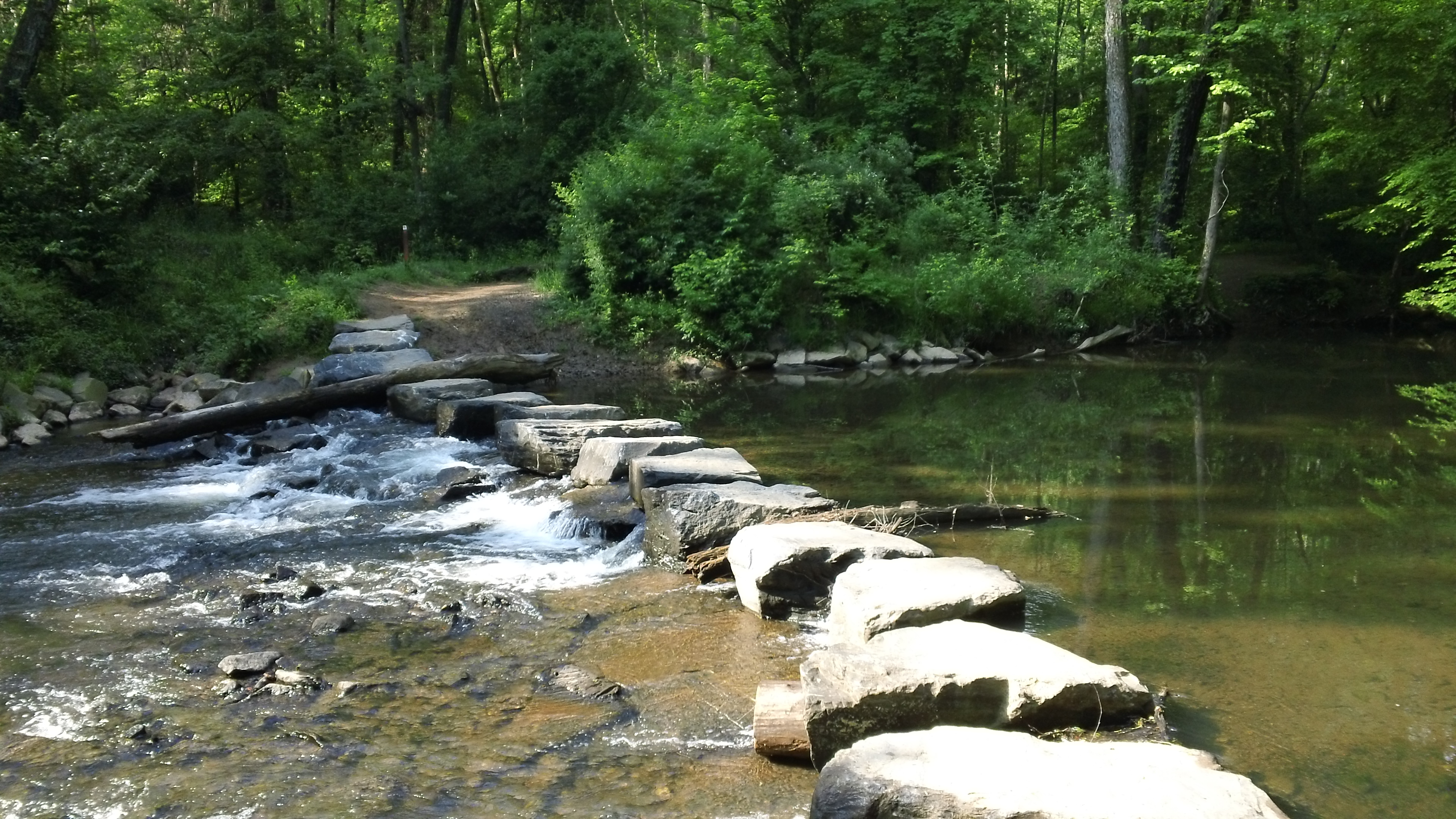 A trail crossing over the Difficult Run near Great Falls Park, Virginia